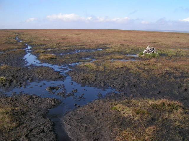 Featherbed Moss. One of several so-named bits of moorland in the area, on the watershed of Great Britain. The cairn marks the junction of the path to Lady Cross. Although moist underfoot, the peat here was actually fairly firm and made for pleasantly easy walking.